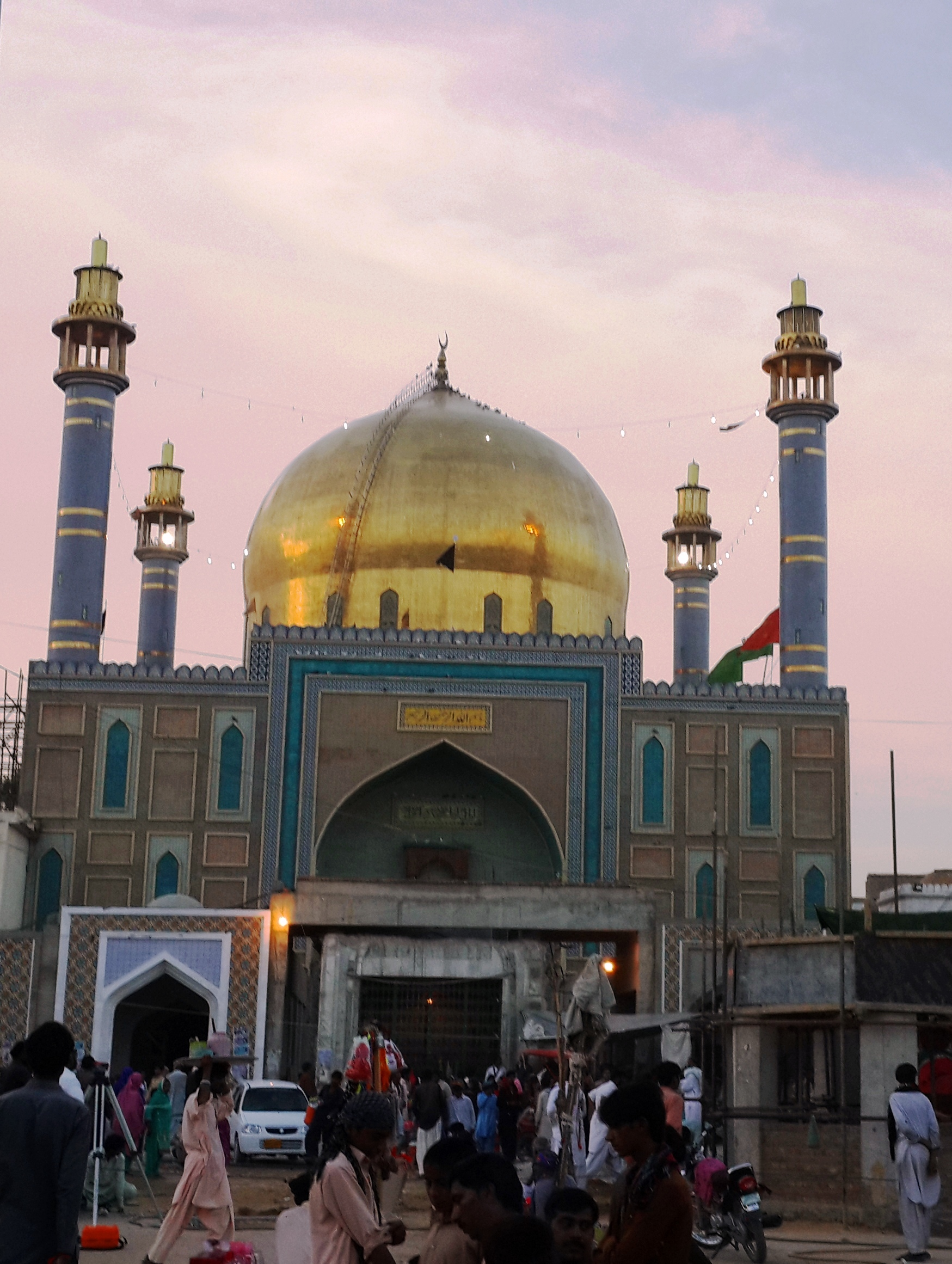 Tomb of Lal Shahbaz Qalandar This is a photo of a monument in Pakistan identified as the SD-U-6